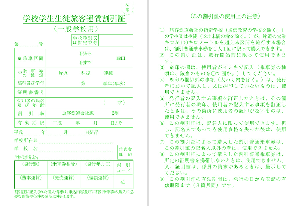 A reproduction of the student discount certificate for the general school issued by JR passenger companies.